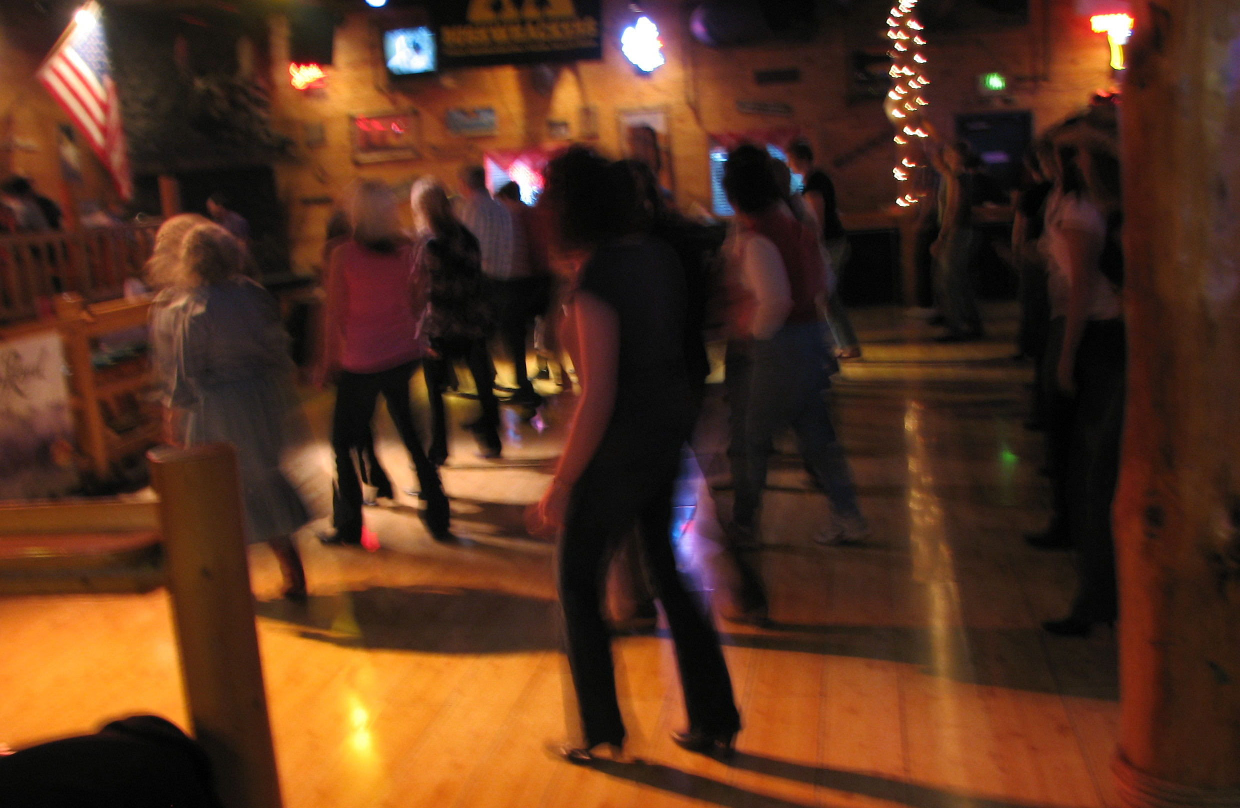 Line dancing at a Country Western Dance Hall and Saloon.